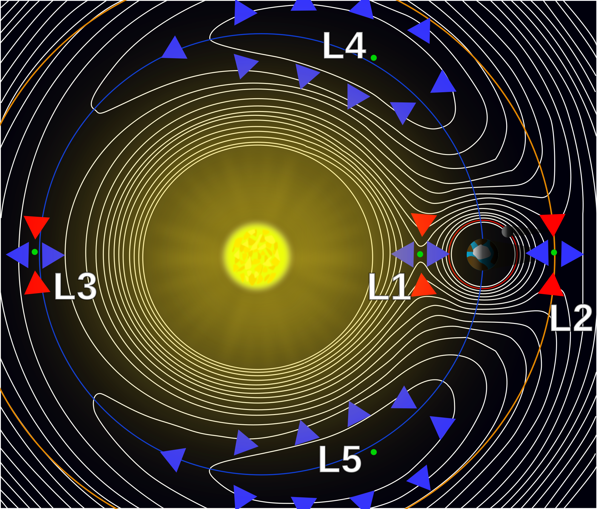 A contour plot of the effective potential of a two-body system. (the Sun and Earth here), showing the 5 Lagrange points. An object in free-fall would trace out a contour (such as the Moon, shown).